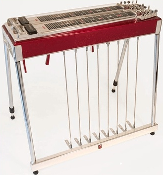 Pedals steel guitar moderne